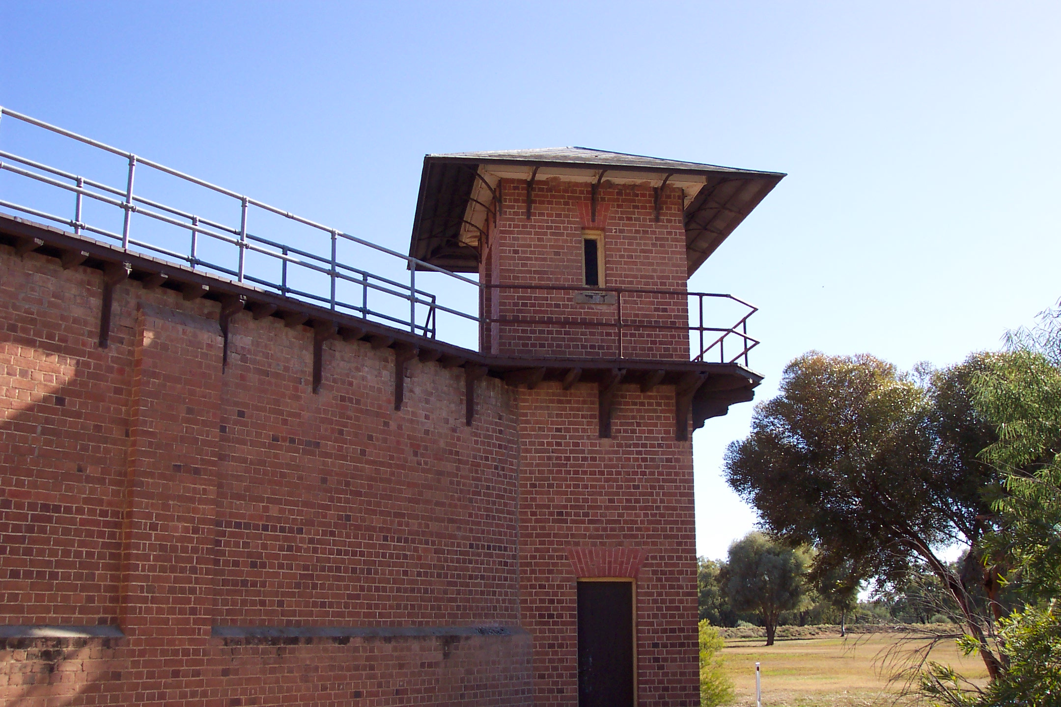 Wentworth Gaol watch house tower.